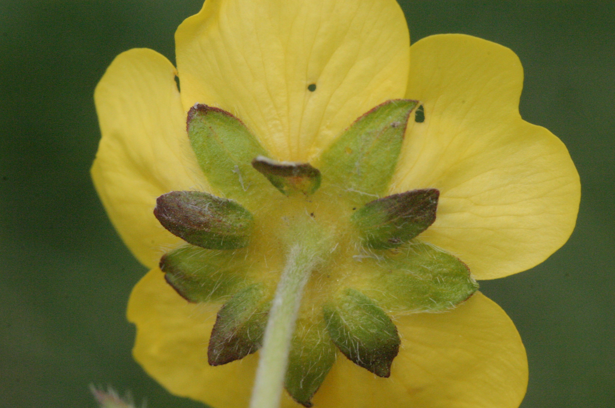 Potentilla crantzii